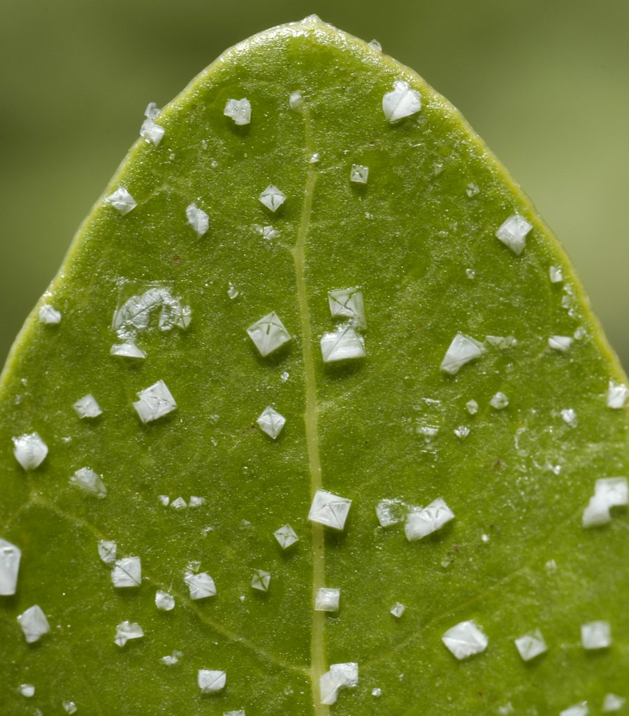 Salt crystals on the leaf surface of the Black Mangrove (Avicennia germinans), mangrove forest near Perimirim, Augusto Corrêa, Pará, Brazil